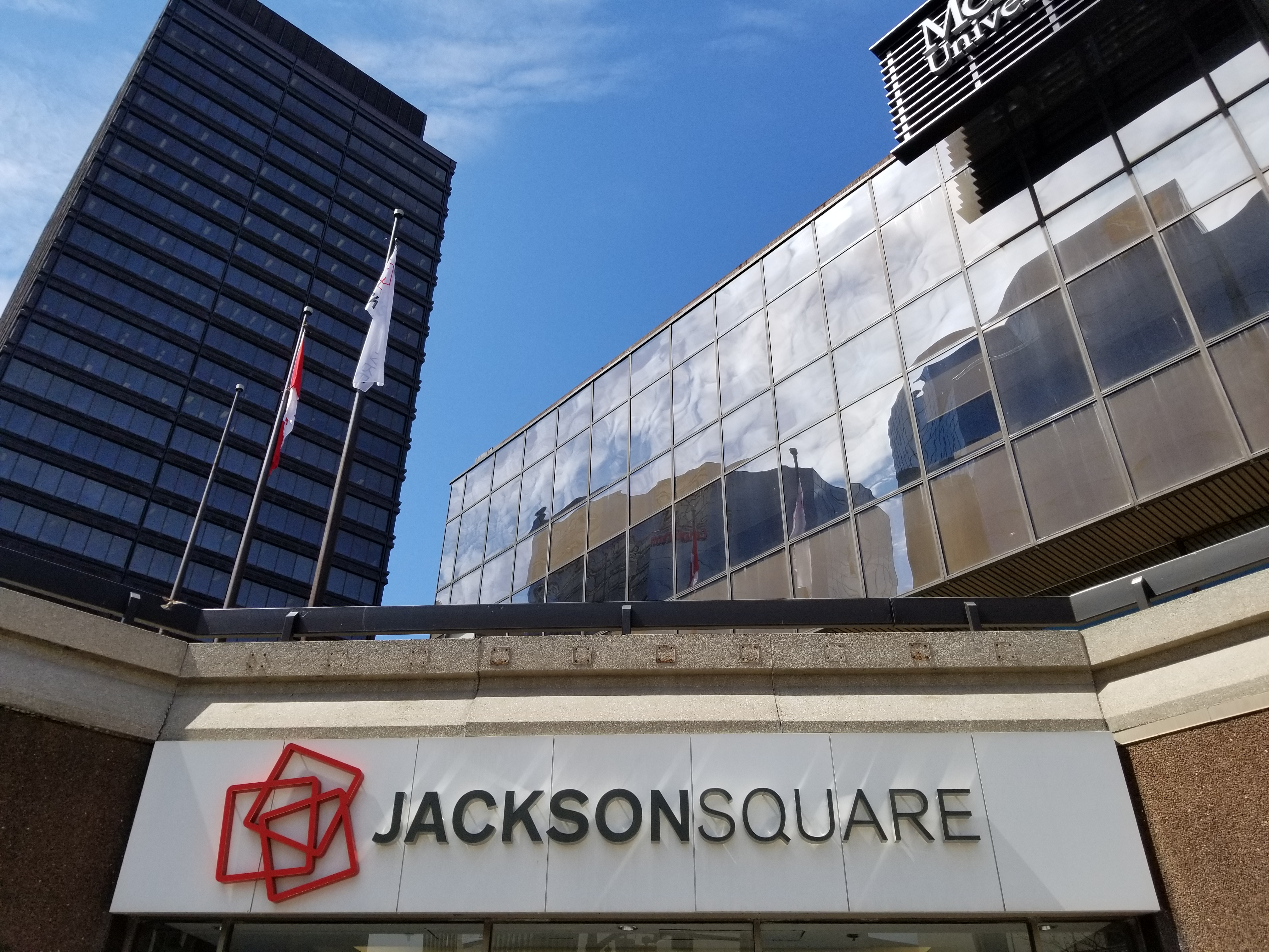 Jackson Square King Street and James Street entrance